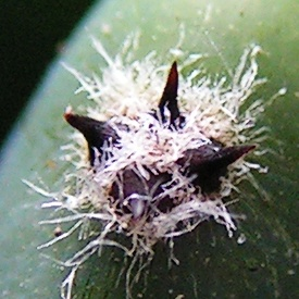 Myrtillocactus geometrizans; close-up of the areole.